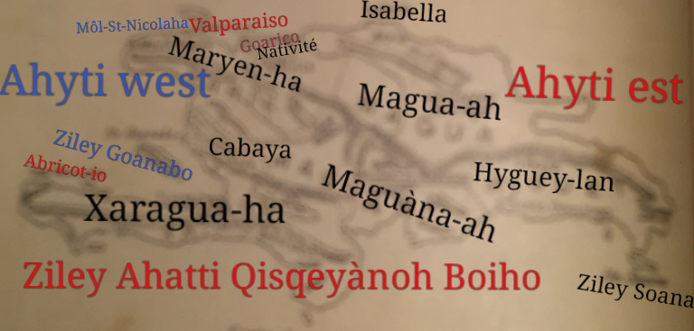 Kreyòl ayisyen : Ahyti anvan Christofh Kolonmb